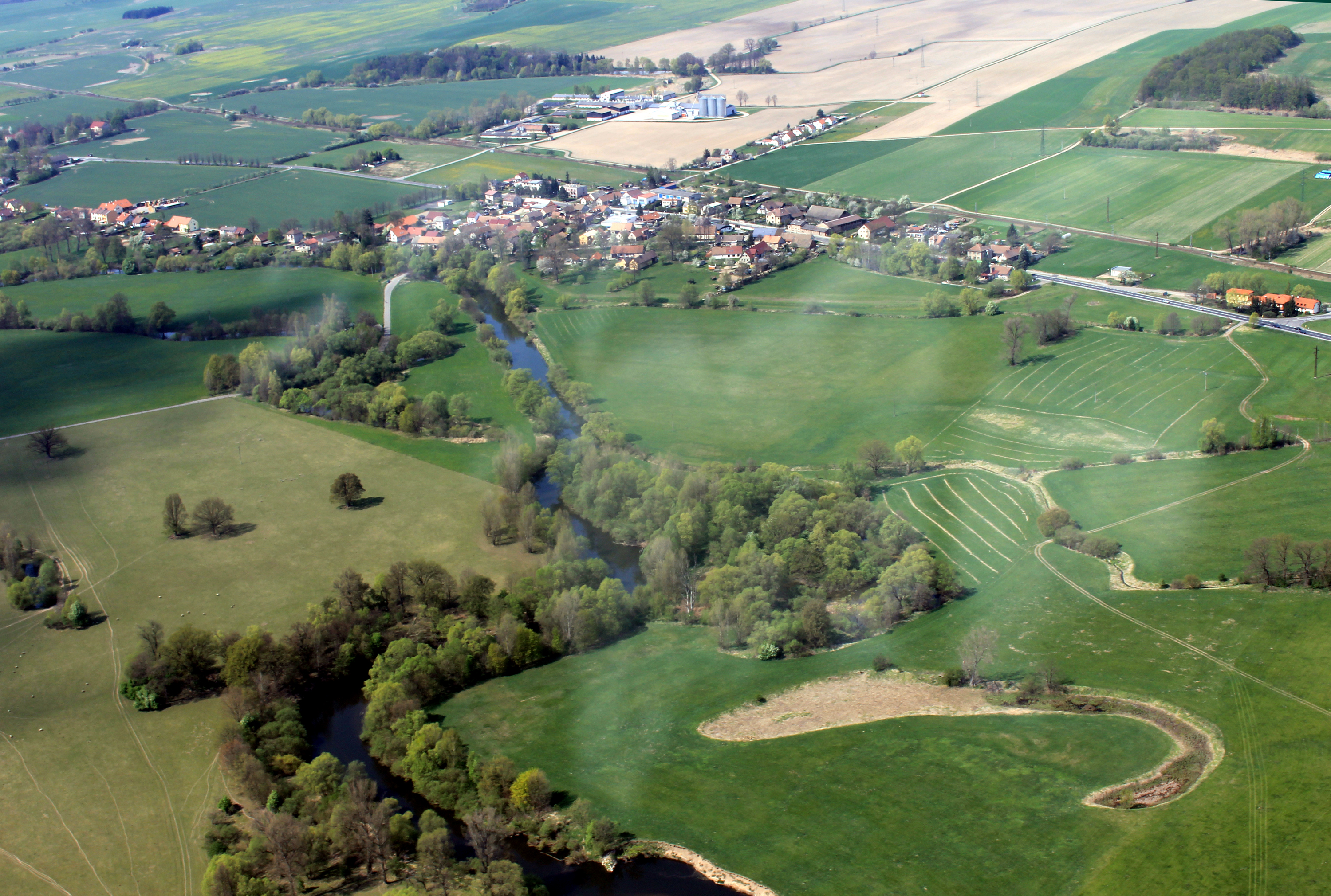 Village Nepasice, part of town Třebechovice pod Orebem from air, eastern Bohemia, Czech Republic